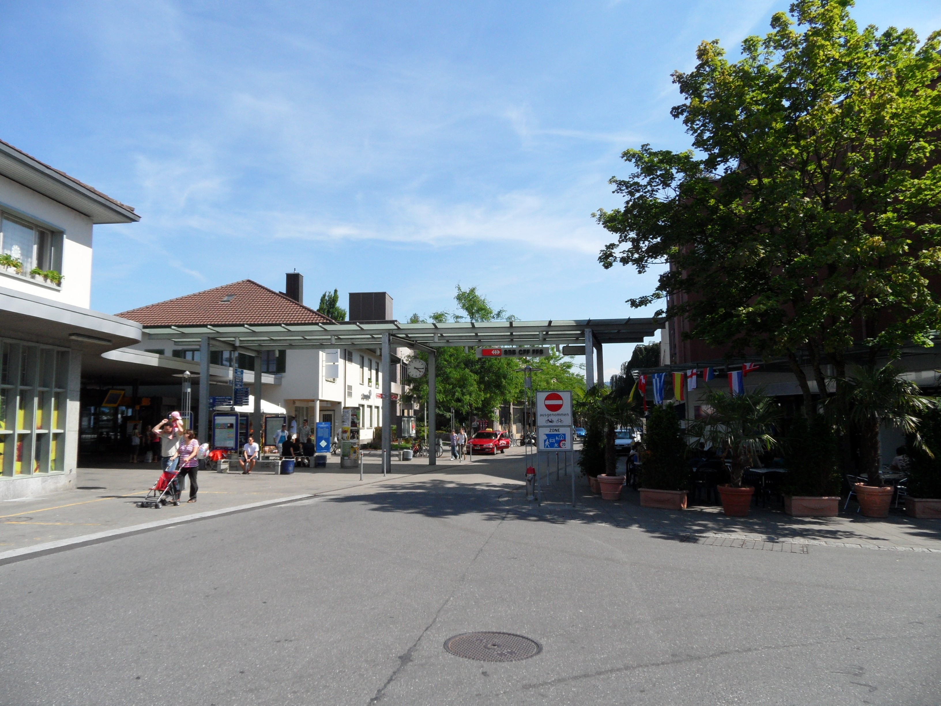 Railway station of Lyss, canton of Bern, Switzerland.